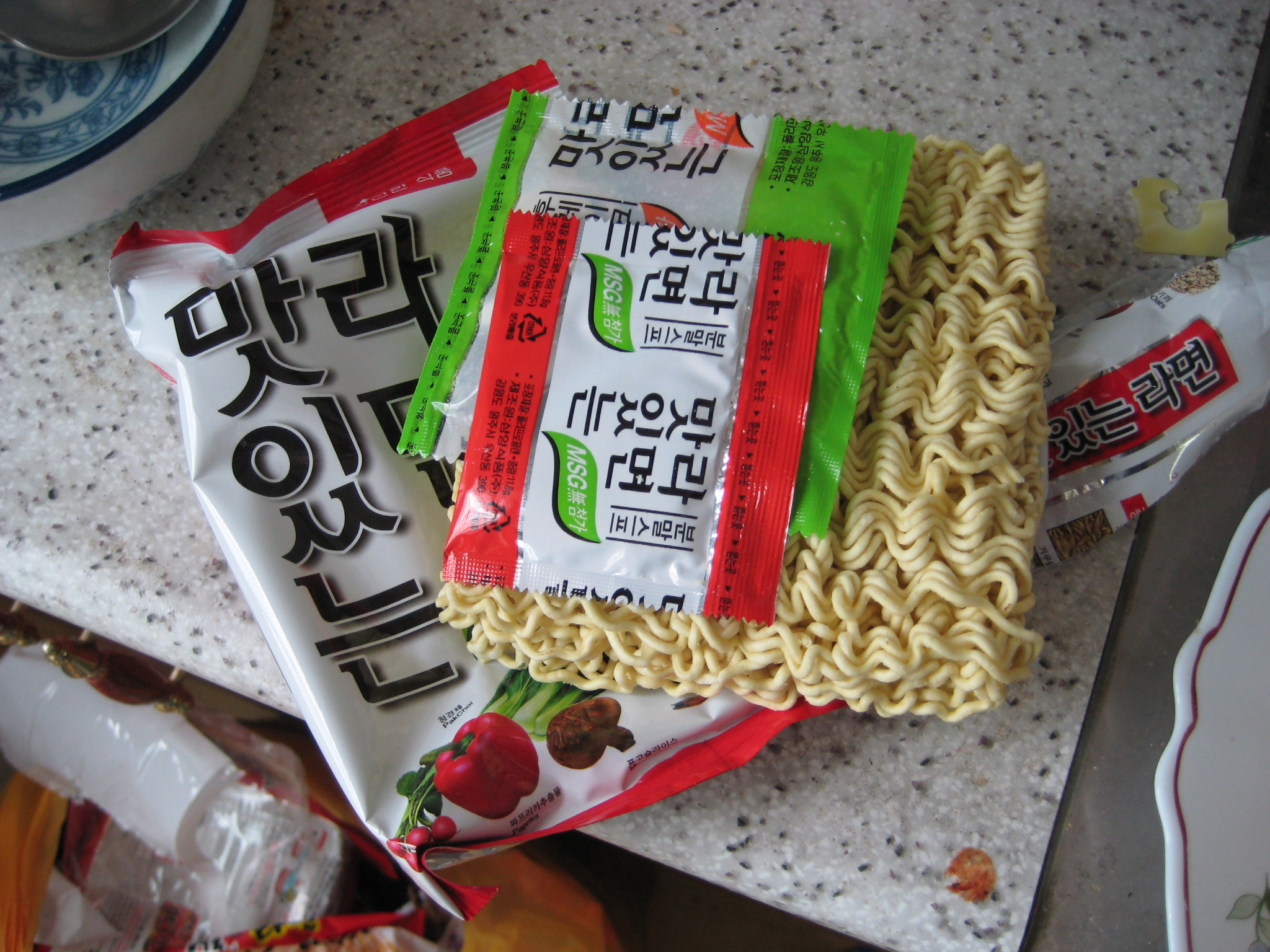 Korean food-Tasty ramyeon